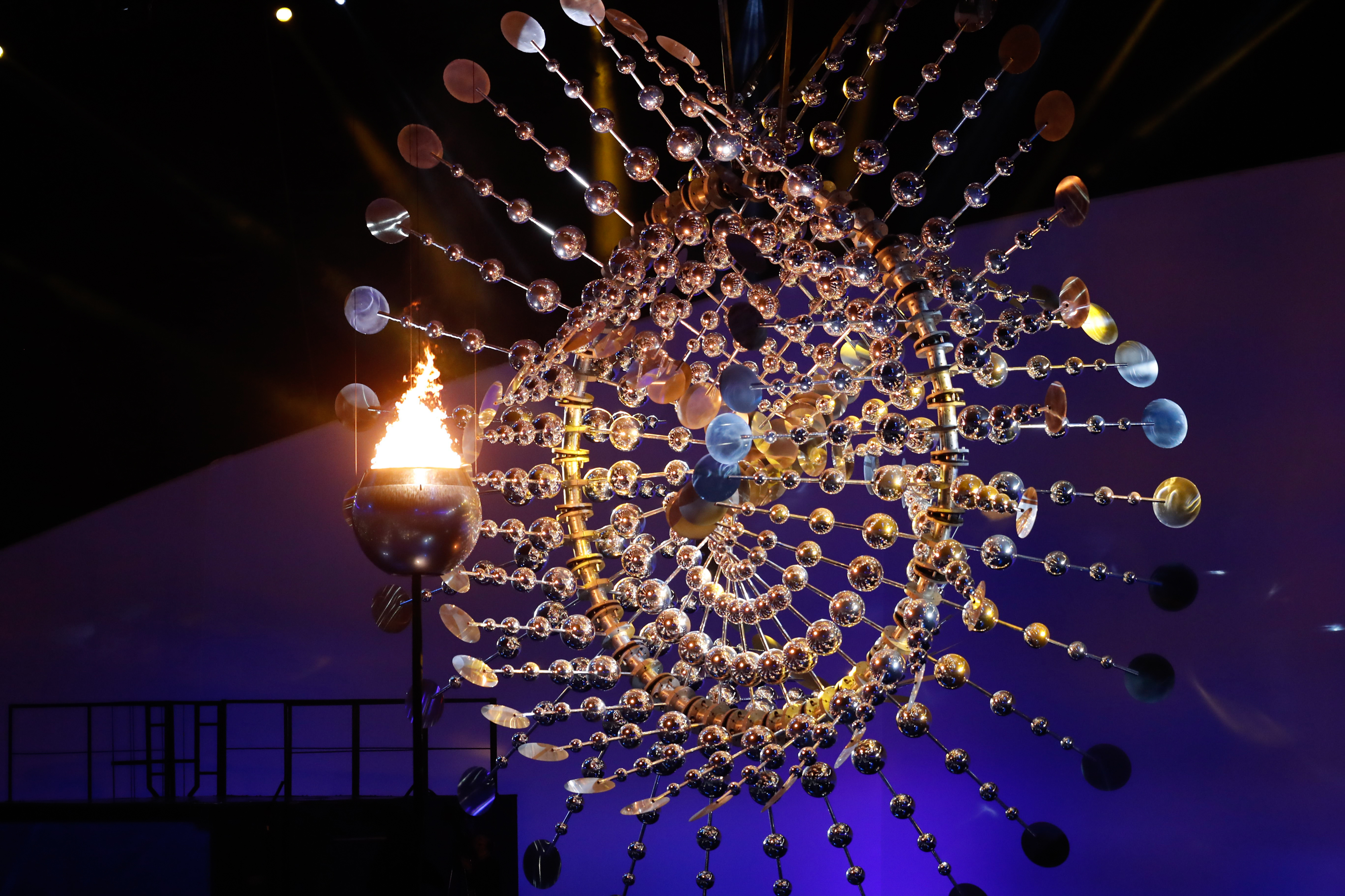 Rio de Janeiro - Cerimônia de abertura dos Jogos Olímpicos Rio 2016 no Estádio do Maracanã. (Fernando Frazão/Agência Brasil)